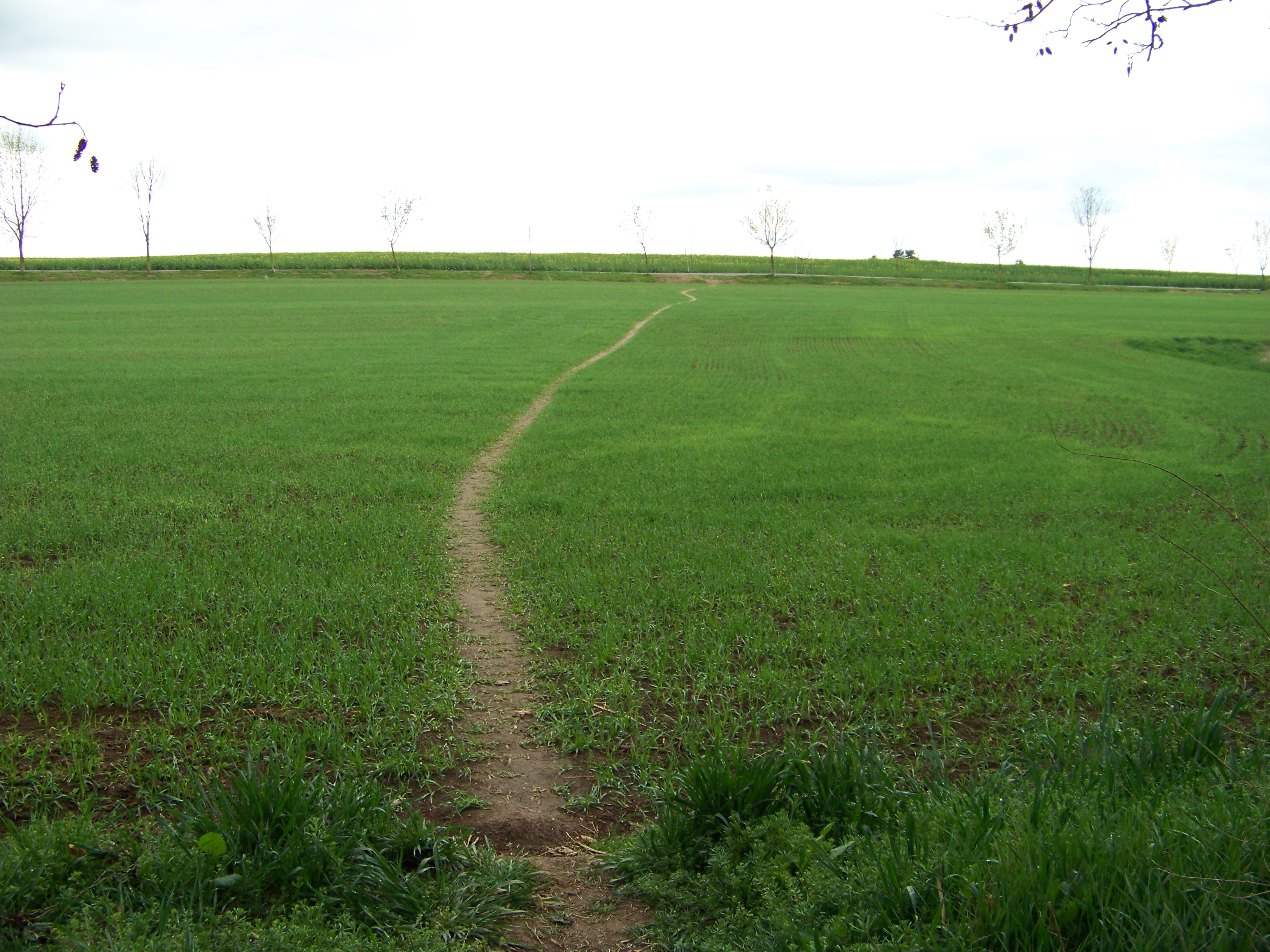 Prague-Kolovraty and Benice, Czech Republic. A trail to the way Kolovraty–Benice.